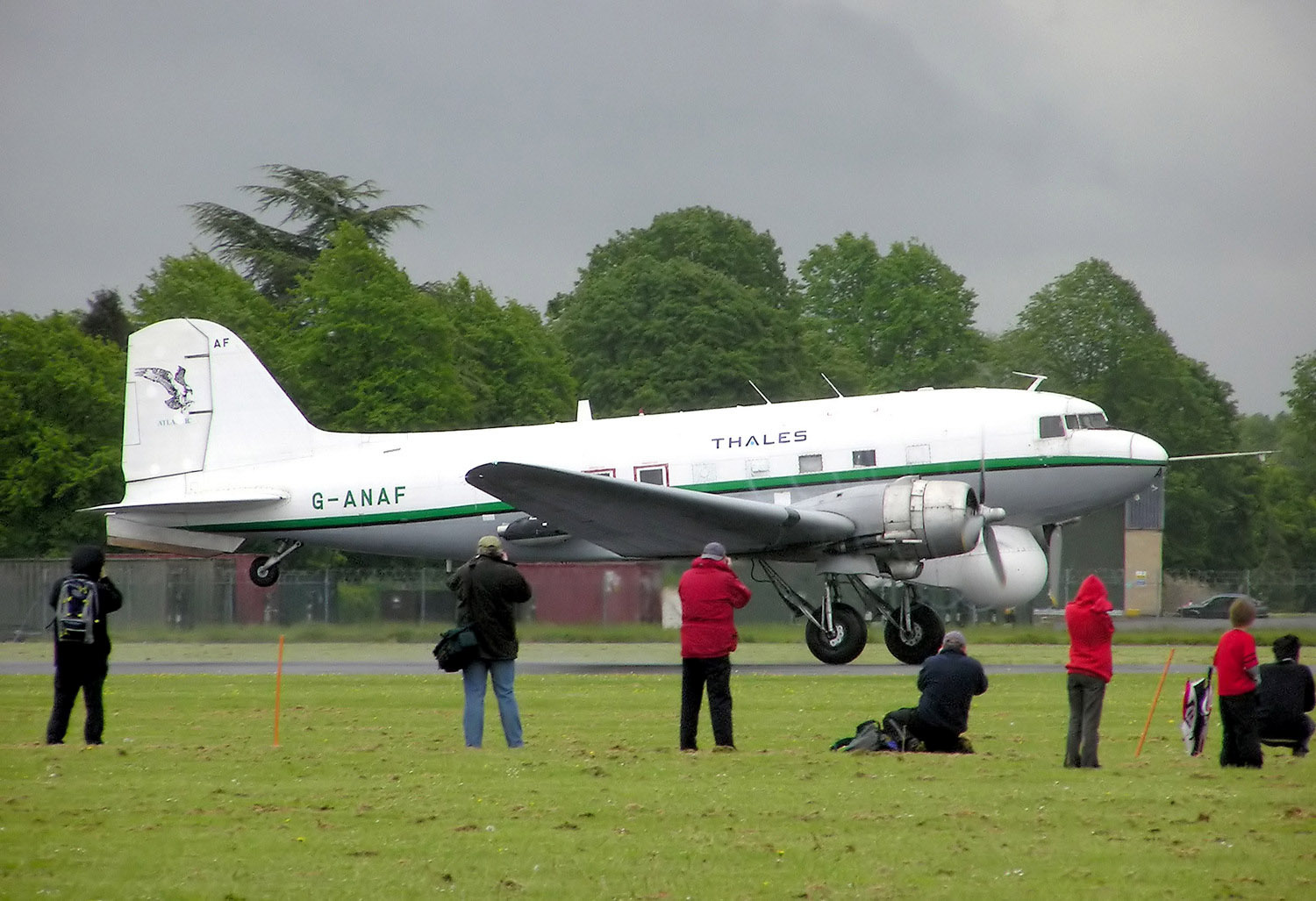 Douglas Dakota DC-3 (G-ANAF) of the Air Atlantique Historic Flight at Hullavington Airfield, Wiltshire, England, taking off. The aircraft is operated by Air Atlantique on behalf of Thales Group for development of the Nimrod radar. The radome under the cockpit contains a rotating parabolic antenna. A new pitot tube was fitted to the nose (the original tube under the nose would interfere with the radar). The APU behind the starboard wing provides electrical power for the radar systems. Note the added vertical stabiliser behind the tail wheel. The aircraft was built in 1944 and apparently operated as part of the Berlin airlift. Photographed by Adrian Pingstone in May 2005 and placed in the public domain.